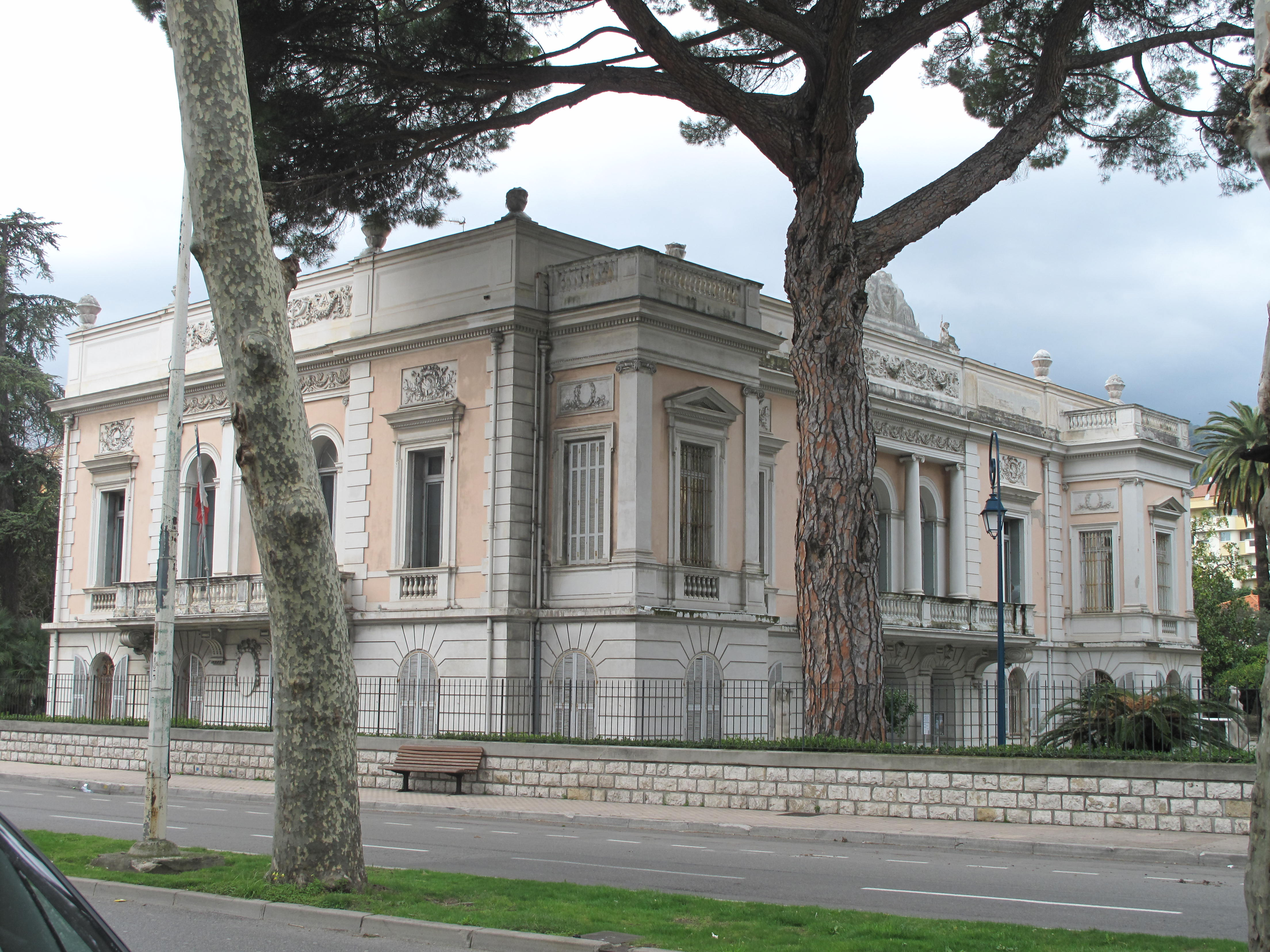 The Palais Carnolès in Menton (Alpes-Maritimes, France). Seen from East side.